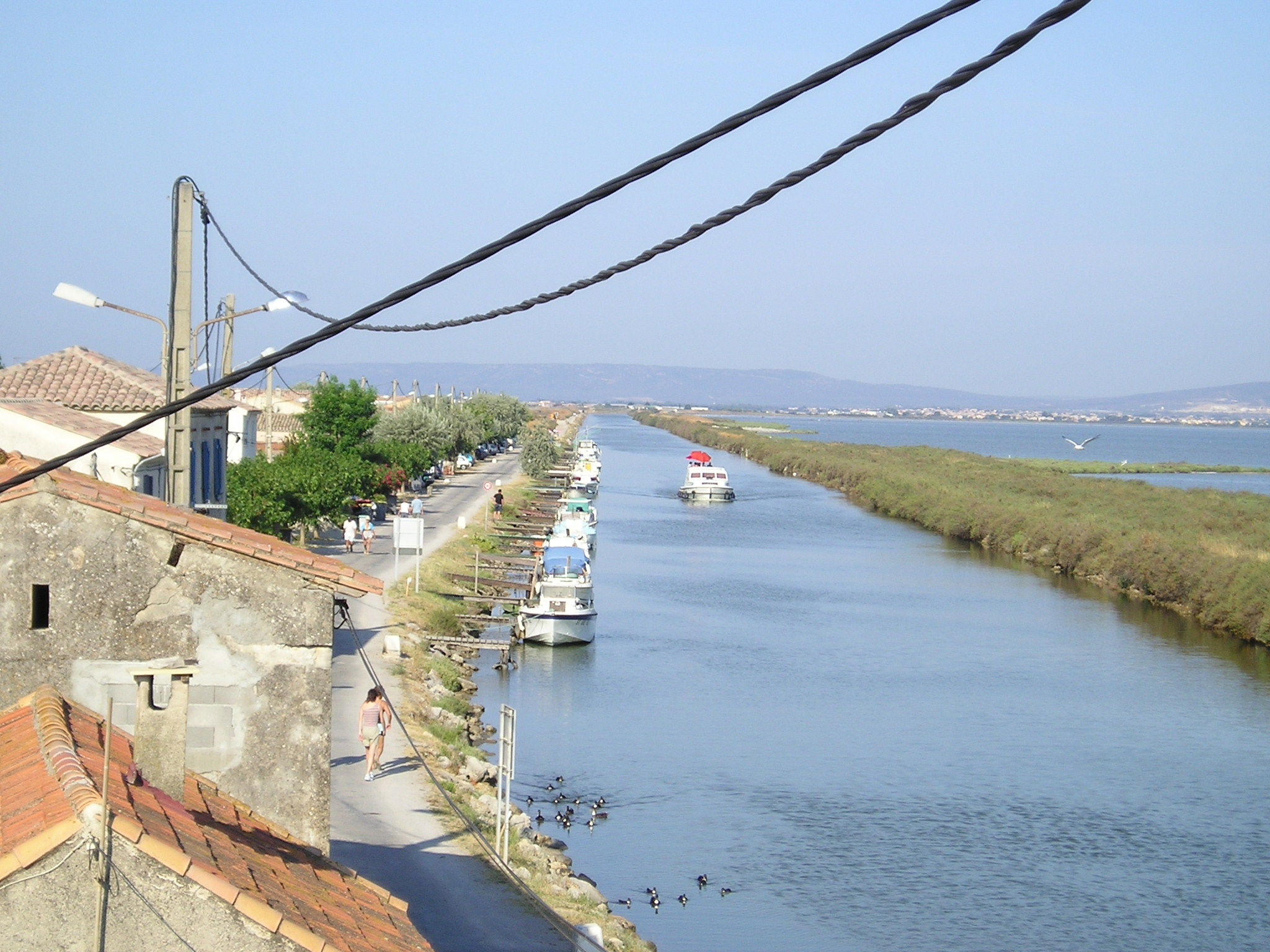 The Rhône to Sète canal, at the Cabanes de Carnon (left) in Palavas-les-Flots. On the right (north-west), the Pérols or Méjean pond ; then far away, Villeneuve-lès-Maguelone. The relief on the background is the Gardiole.